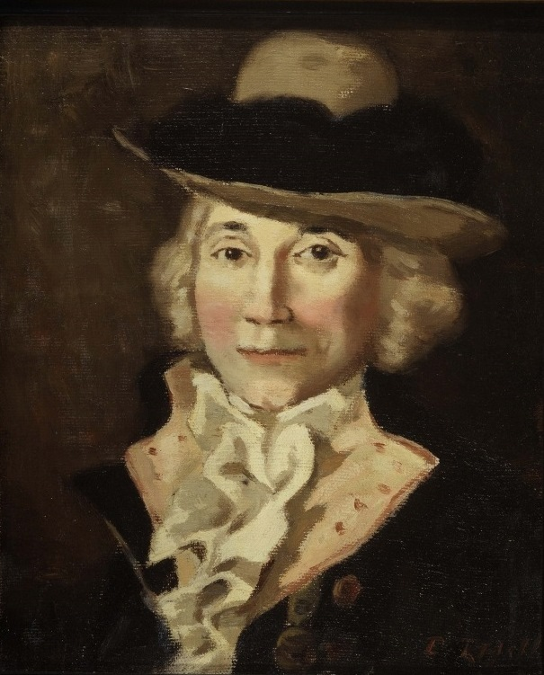 Painting, Portrait of Charles Jean-Baptiste Chaboillez (1736-1808), Oil on canvas, 30.7 x 25.4 cm